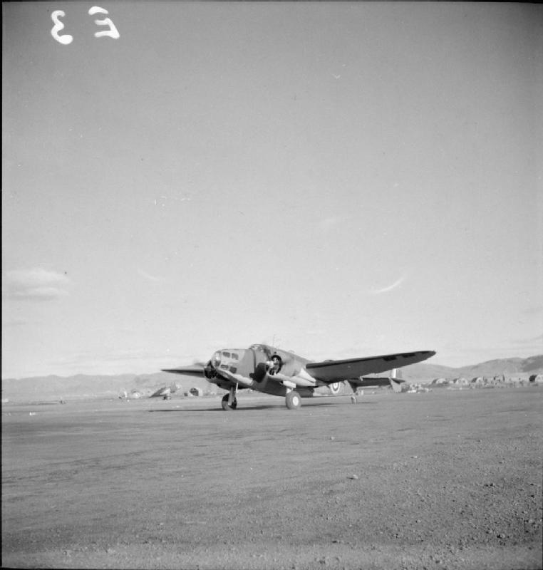 Royal Air Force Coastal Command, 1939-1945. A Lockheed Hudson of No. 269 Squadron RAF prepares to take off on a patrol over the North Atalantic from Kaldadarnes, Iceland.